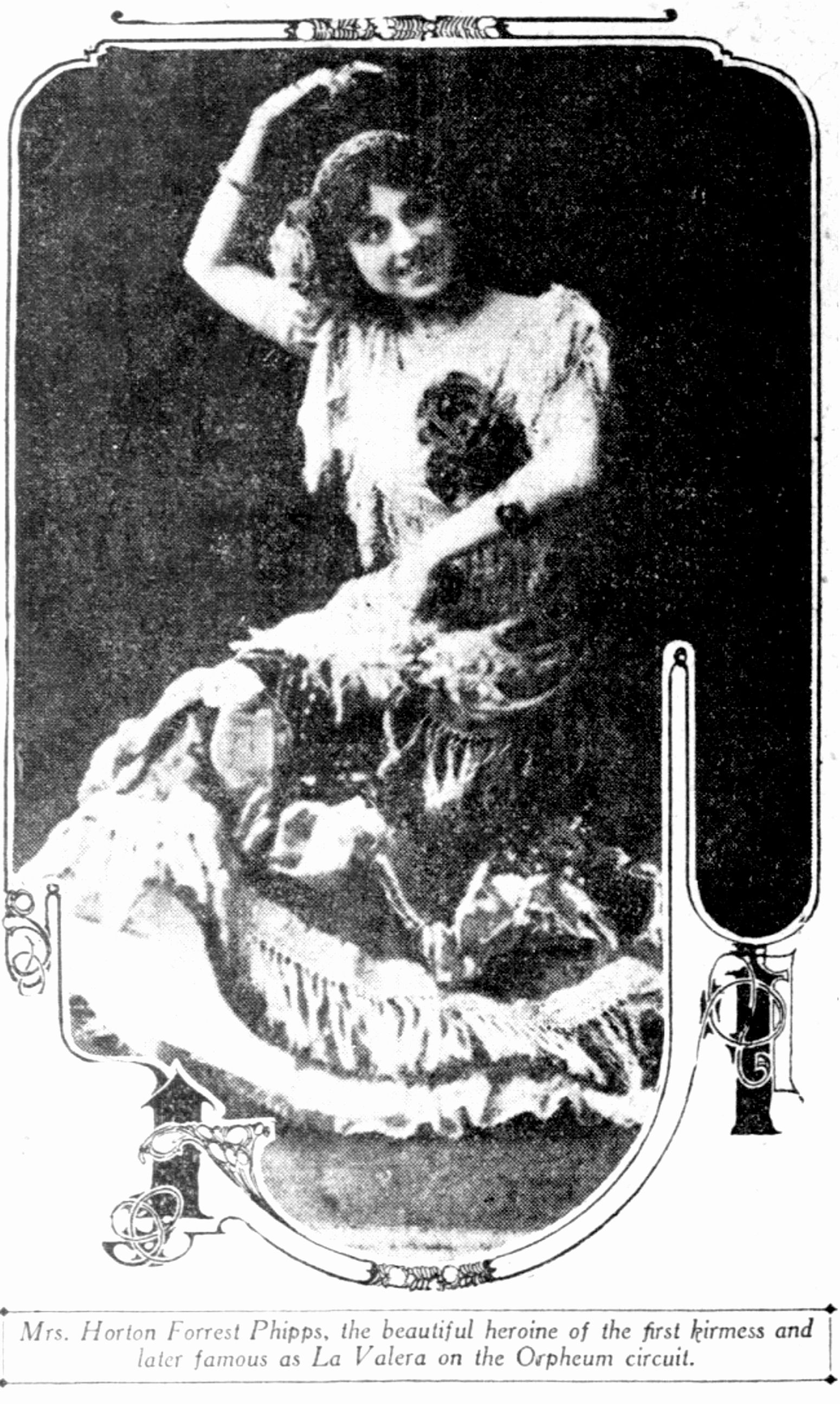 La Valera from a press cutting in 1911.